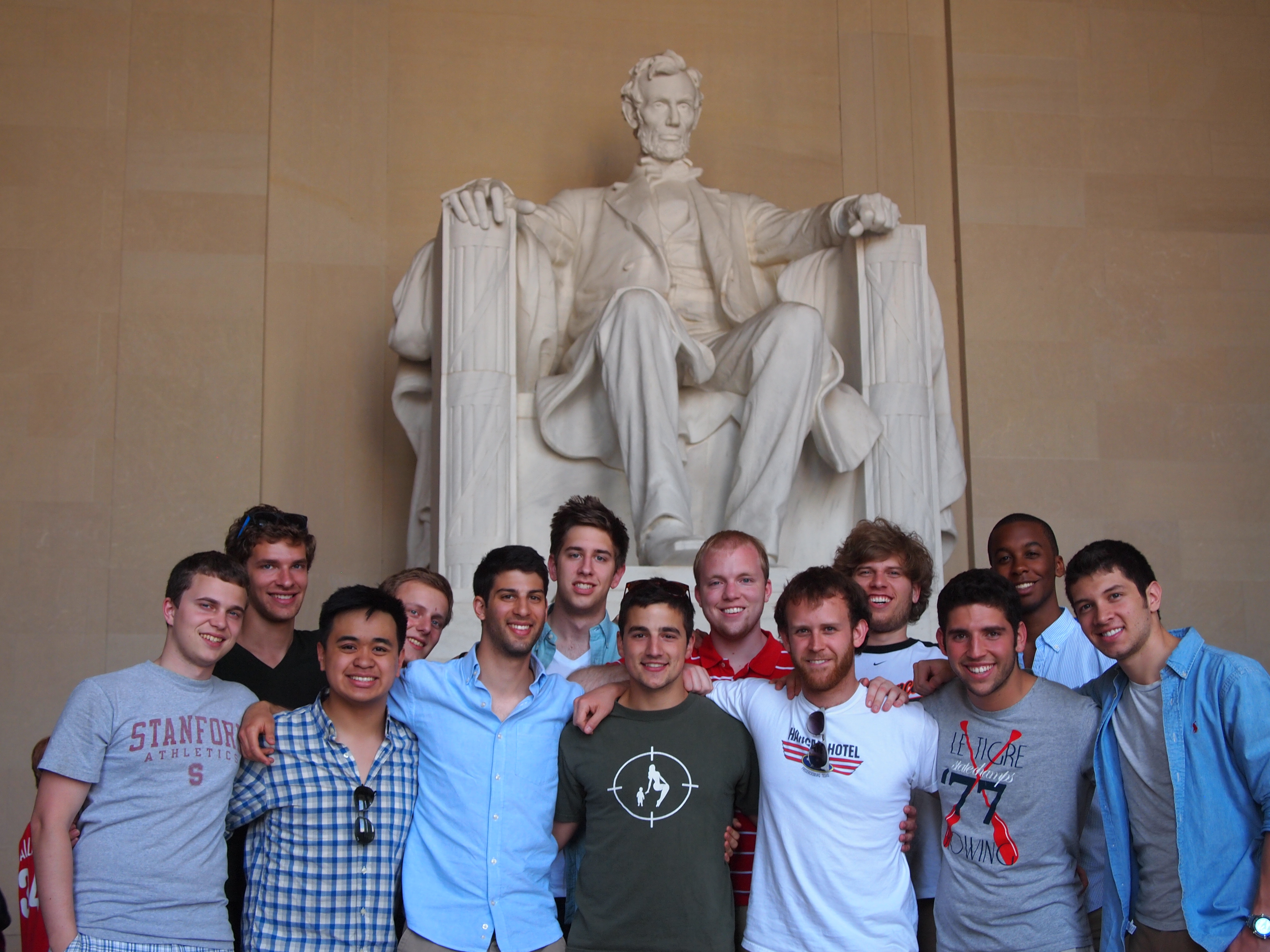 The Dear Abbeys at the Lincoln Memorial in 2012.